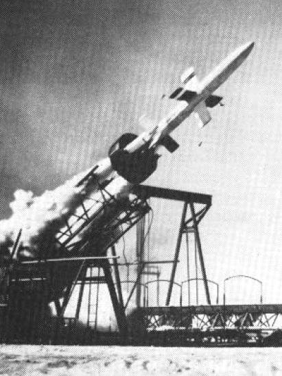 Launch of a SAM-N-2 Lark missile at the U.S. Navy Naval Ordnance Test Station China Lake, California (USA). The program was stopped in 1950 in favour of the later RIM-2 Terrier missile. Modified Larks were later used for guidance system development testing by all three U.S. services through the early 1950s. The U.S. Bureau of Aeronautics Sparrow program began in 1950 using the Lark target seeker in air-to-air missiles. The U.S. Army used Lark components investigating guidance options for the MGM-18 Lacrosse surface-to-surface missile. Changing roles during a period of changing nomenclature created a confusing number of designations for the Lark. Fairchild production was identified as KAQ, SAM-N-2, and CTV-N-9. Convair production was identified as KAY, SAM-N-4, and CTV-N-10. Army test versions were designated RV-A-22.